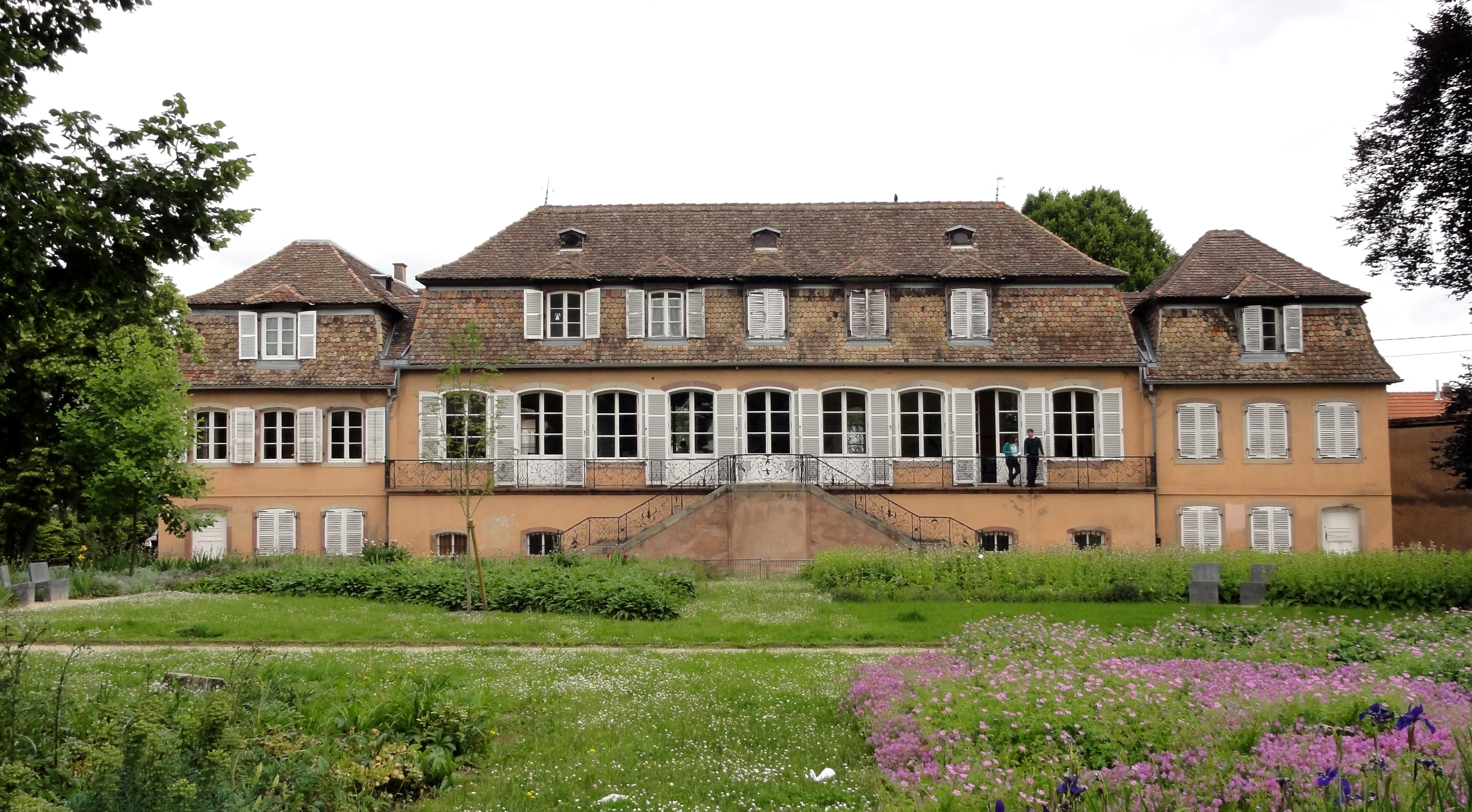 Alsace, Bas-Rhin, Illkirch-Graffenstaden, Ancien château Klinglin ou d'Illhausen (XVIIIe): Orangerie. It is indexed in the Base Mérimée, a database of architectural heritage maintained by the French Ministry of Culture, under the references PA00084754, IA67011043 and IA00023207.